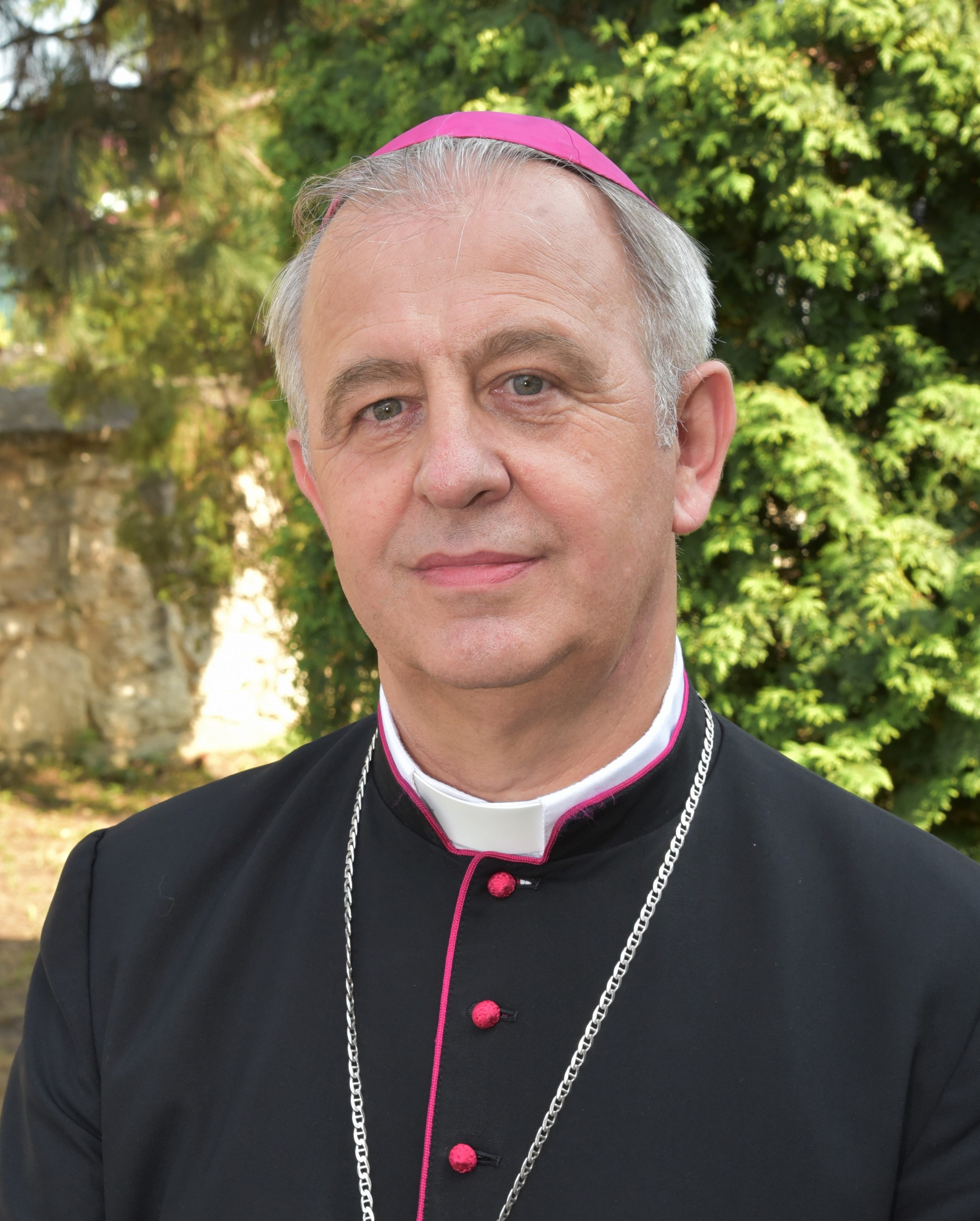 Bishop Jan Piotrowski, diocesan bishop of Kielce. Strożyska, 20 June 2018.